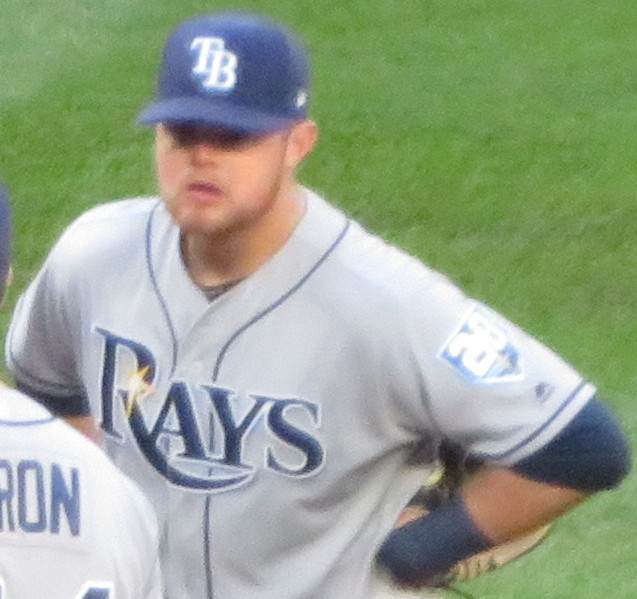 Chris Archer of the Tampa Bay Rays is visited on the field by training staff and teammates during a 2018 game at Safeco Field in Seattle.